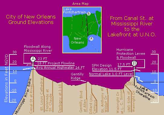 from Hurricane & Emergency Information - NGVD Defined - New Orleans District, Corps of Engineers Category:New Orleans, Louisiana